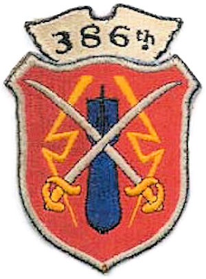 Emblem of the 386th Fighter Bomber Squadron (approved 7 June 1955)